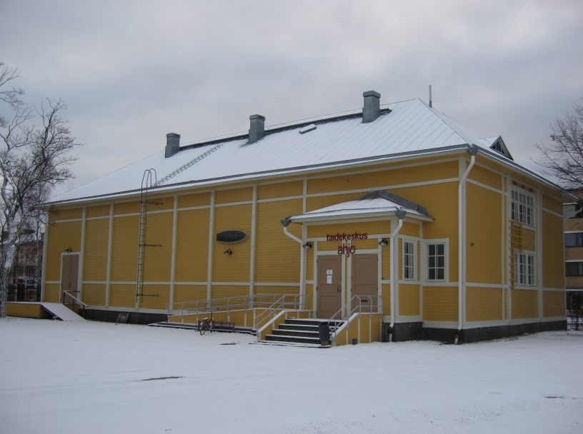 Ahjo art gallery in Joensuu